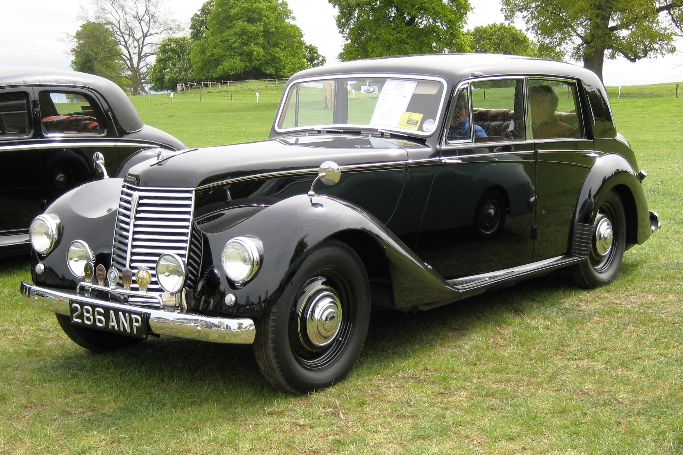 Armstrong Siddeley Whitley in a field near Biggleswade on a slightly wet day Registered May 1953 Manufactured 1953 Cylinder capacity (cc): 2309 cc